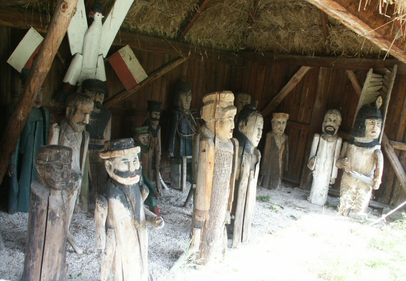 Sculptures of the Polish folk artist Jan Bernasiewicz in an open air museum of Kielce Region countryside in Tokarnia near Kielce, Poland